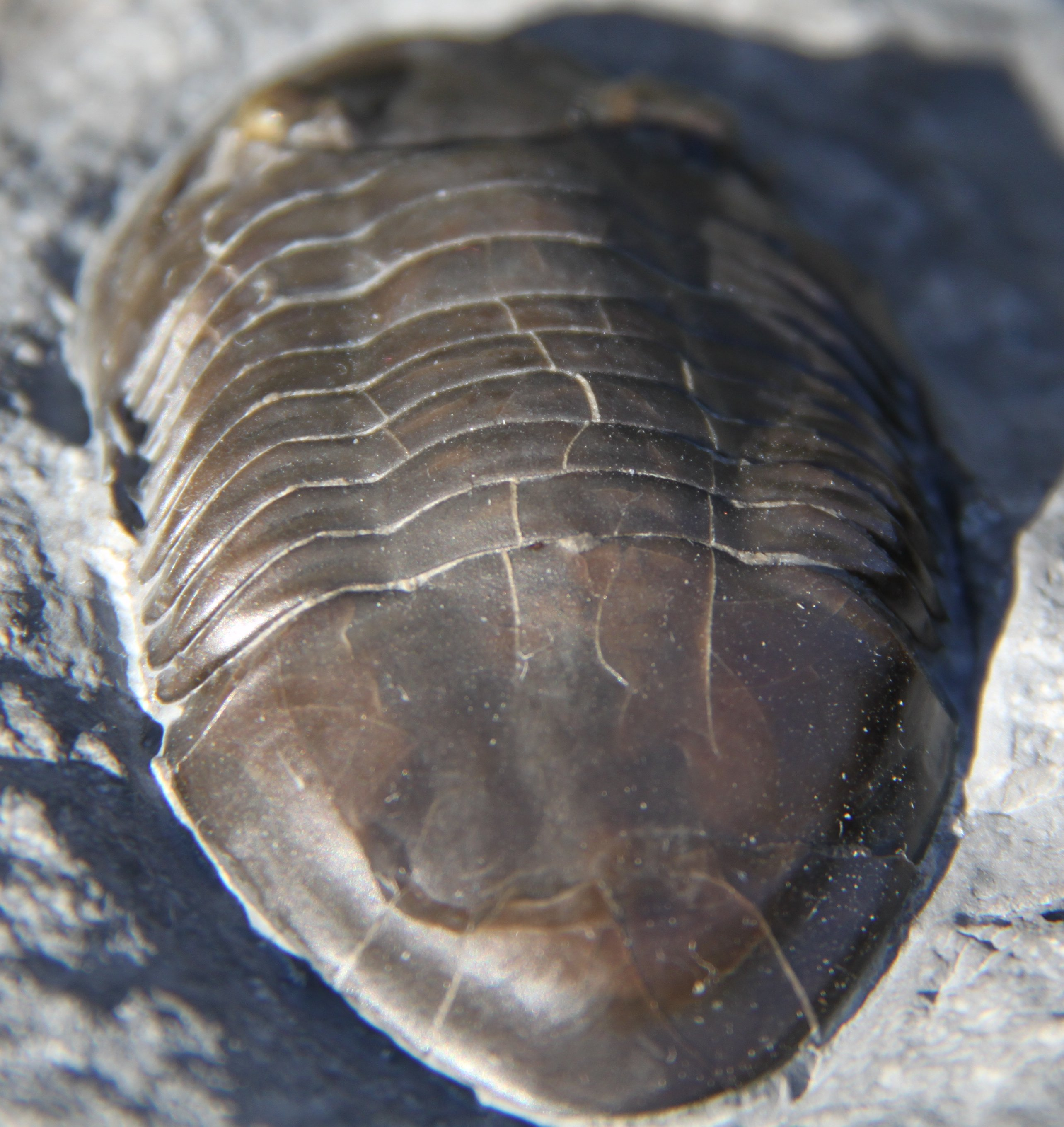 An Isotelus cf. gigas/malfitzi trilobite, Order Asaphida, Family Asaphidae, 65mm along the axis, viewed from the back, collected near Rochester, New York, USA, from the Silurian